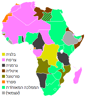 Map showing European claims on Africa in 1914